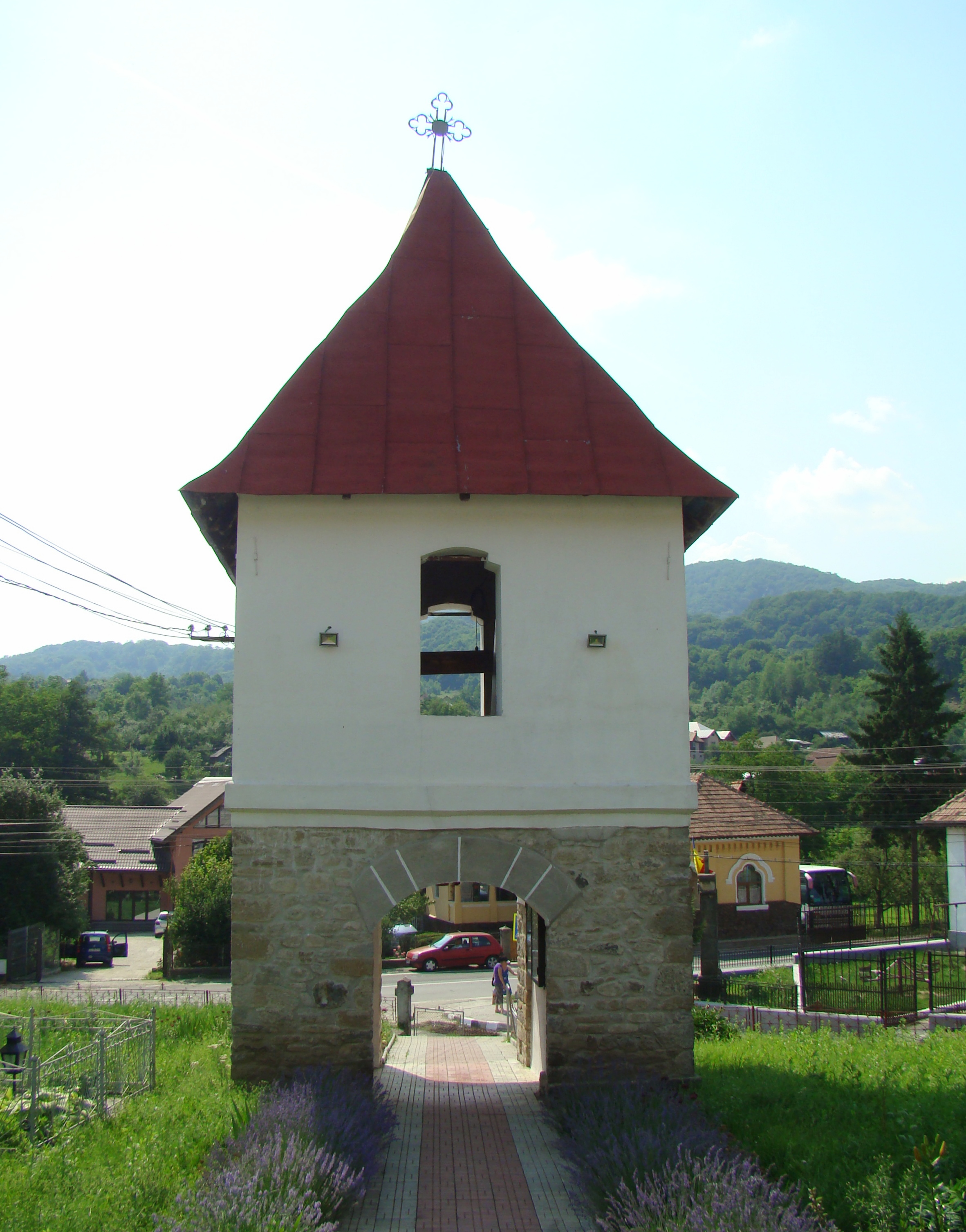 Saint Nicholas church in Olănești, Vâlcea county, Romania